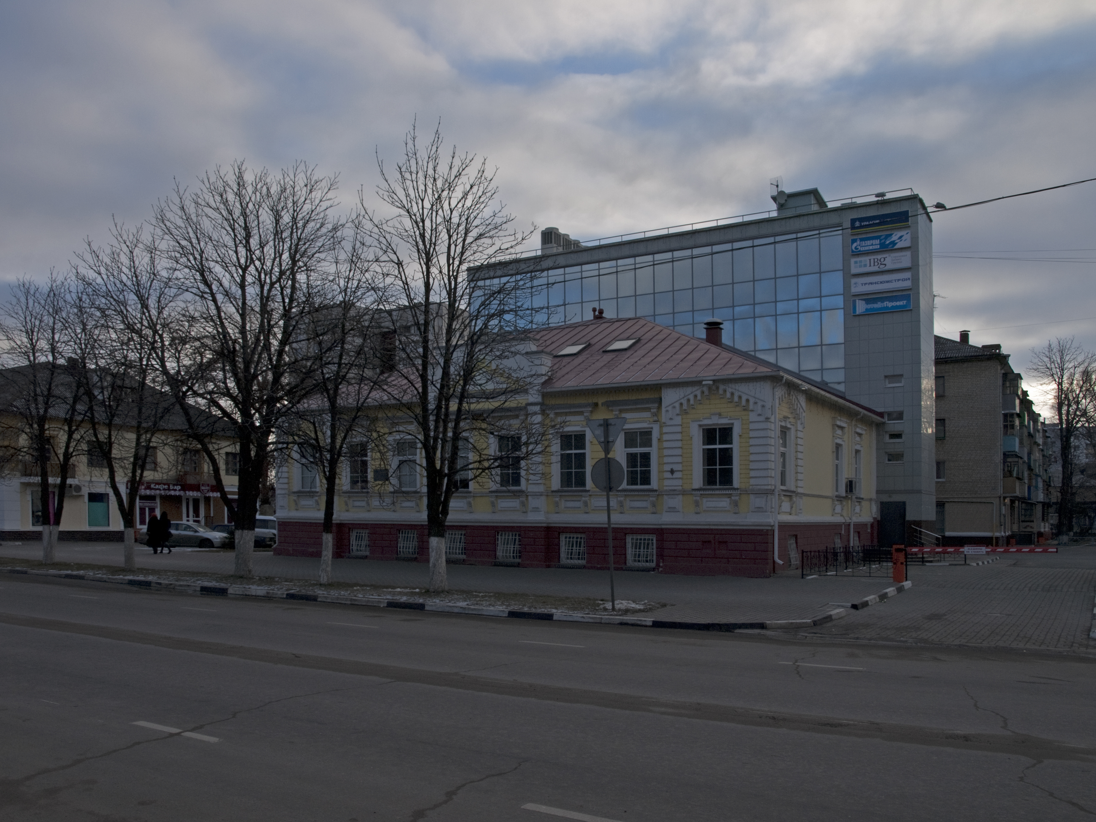 Former gym, Grazhdansky Avenue 23, Belgorod